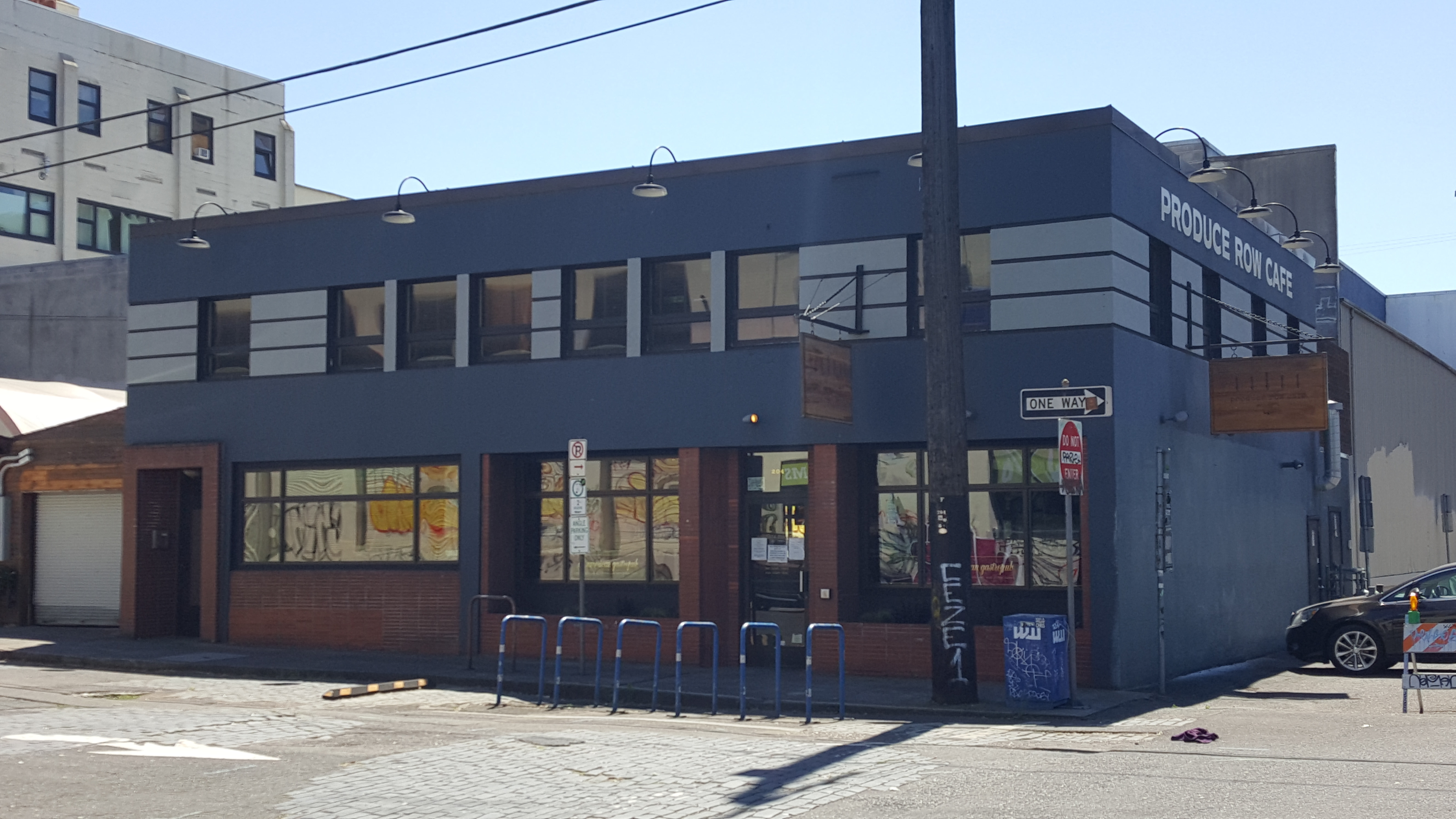 Portland, Oregon, July 25, 2020